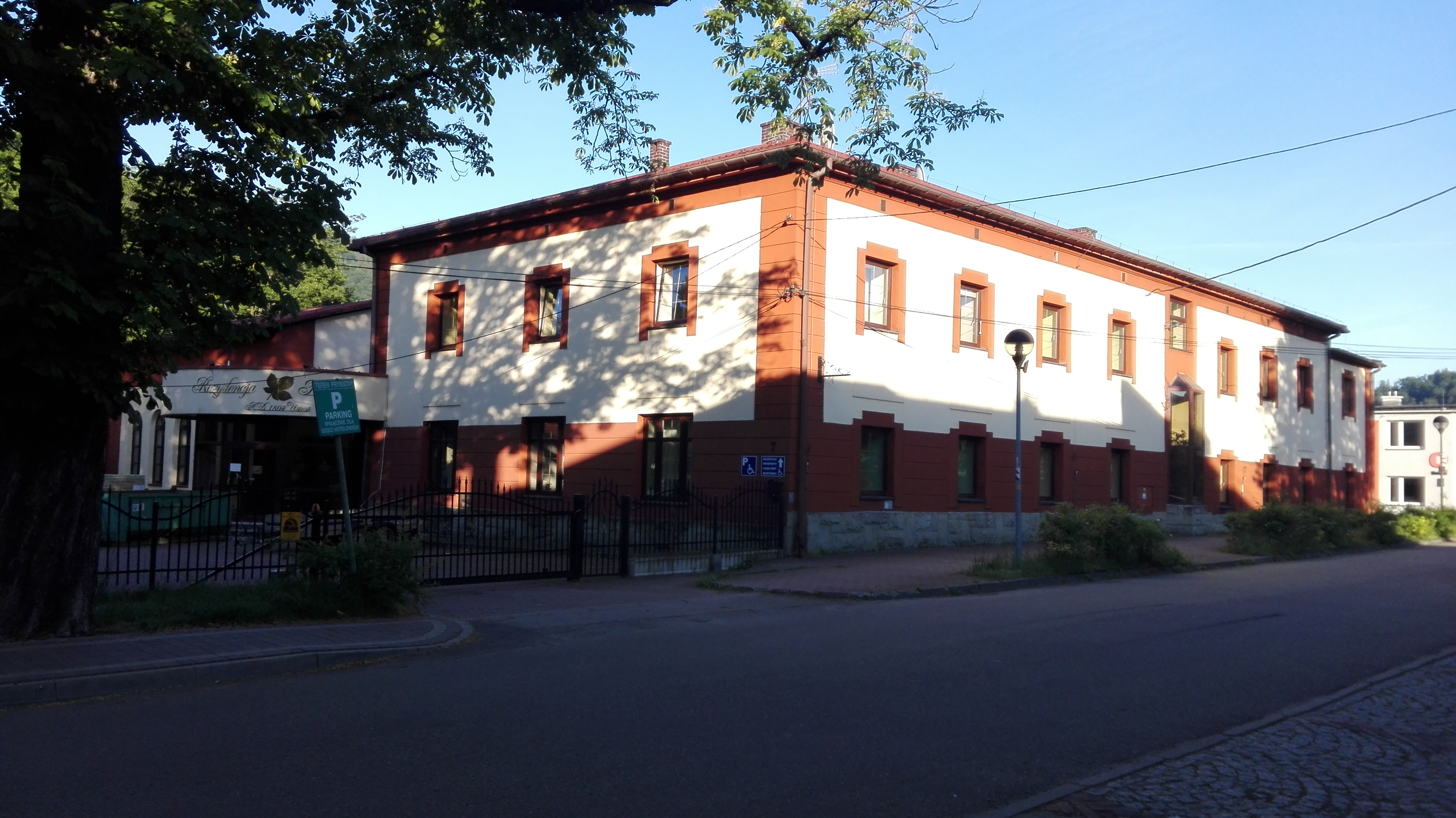 7 Hutnicza Street in Ustroń